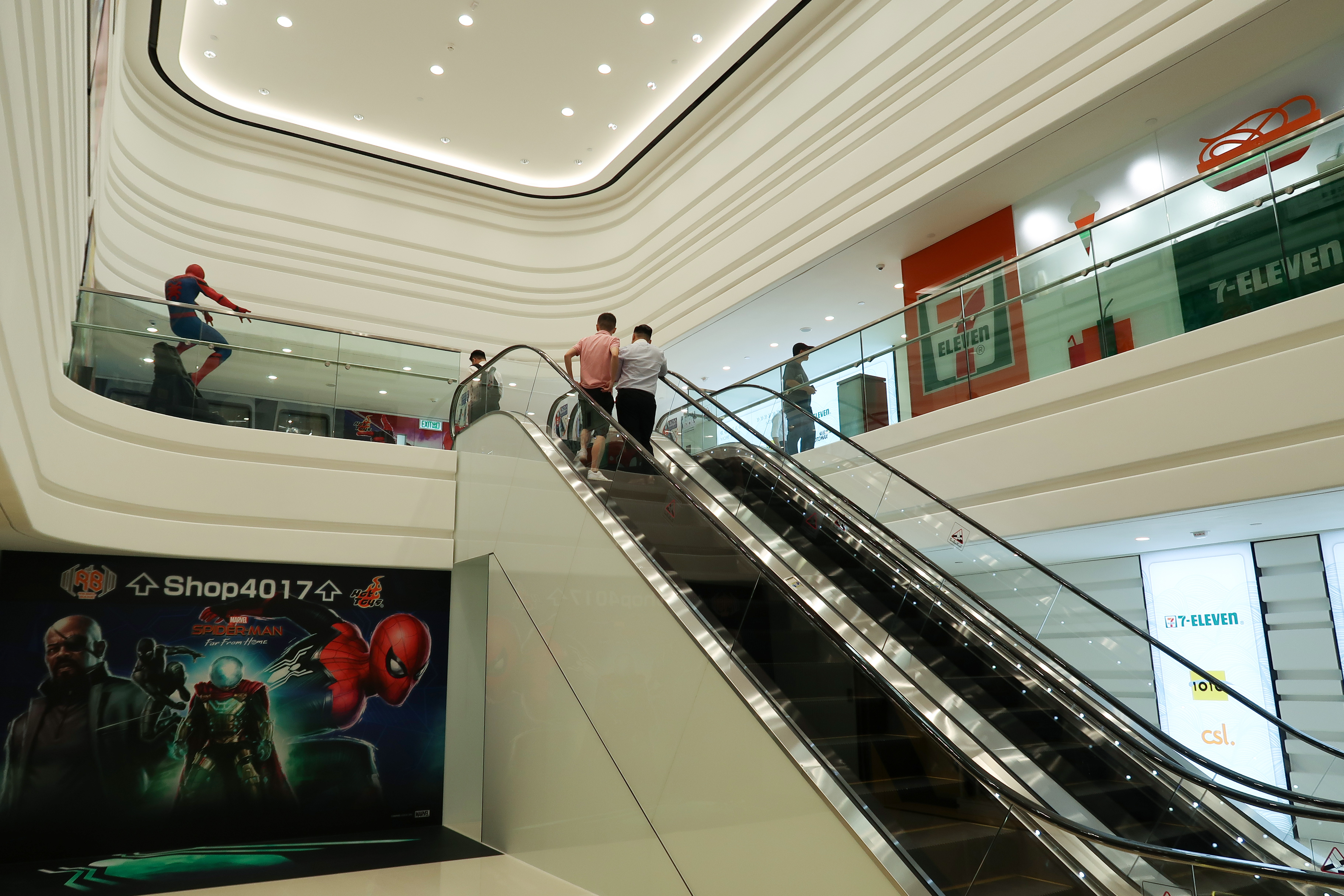 The Gateway to Level 4 escalator void